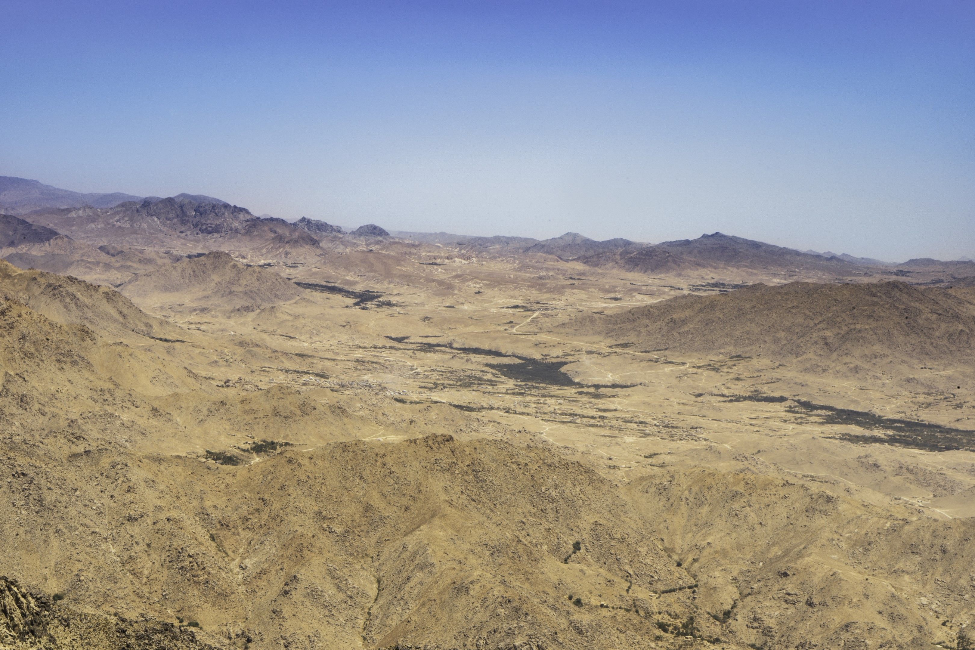 Landscape of Jaghori from one of its highest peaks (Badasiya Mountain)